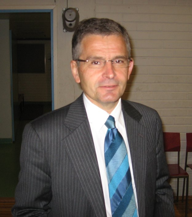 Jussi Pajunen, Mayor of Helsinki and Finnish politician, in Jakomäki Comprehensive School, Helsinki.